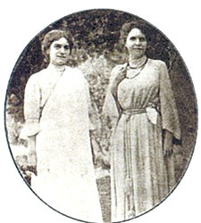 Sister Christine with Sister Nivedita in India, before 1911